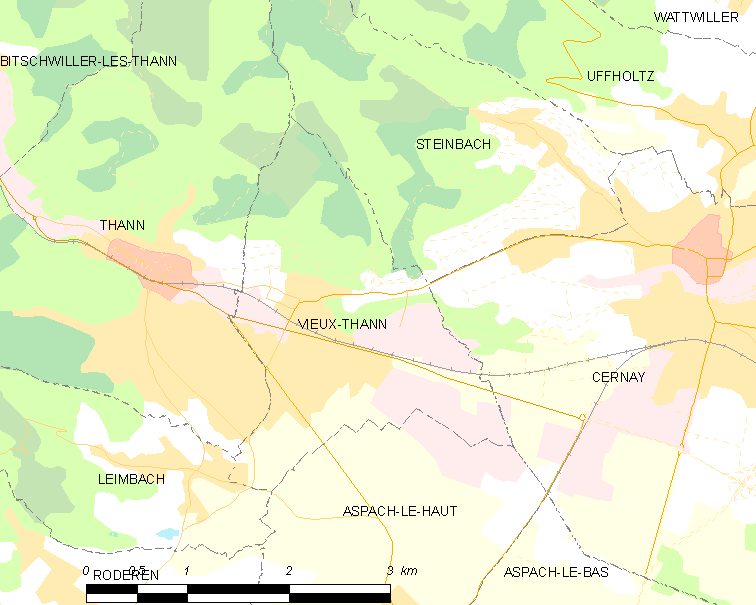 Map of French municipality